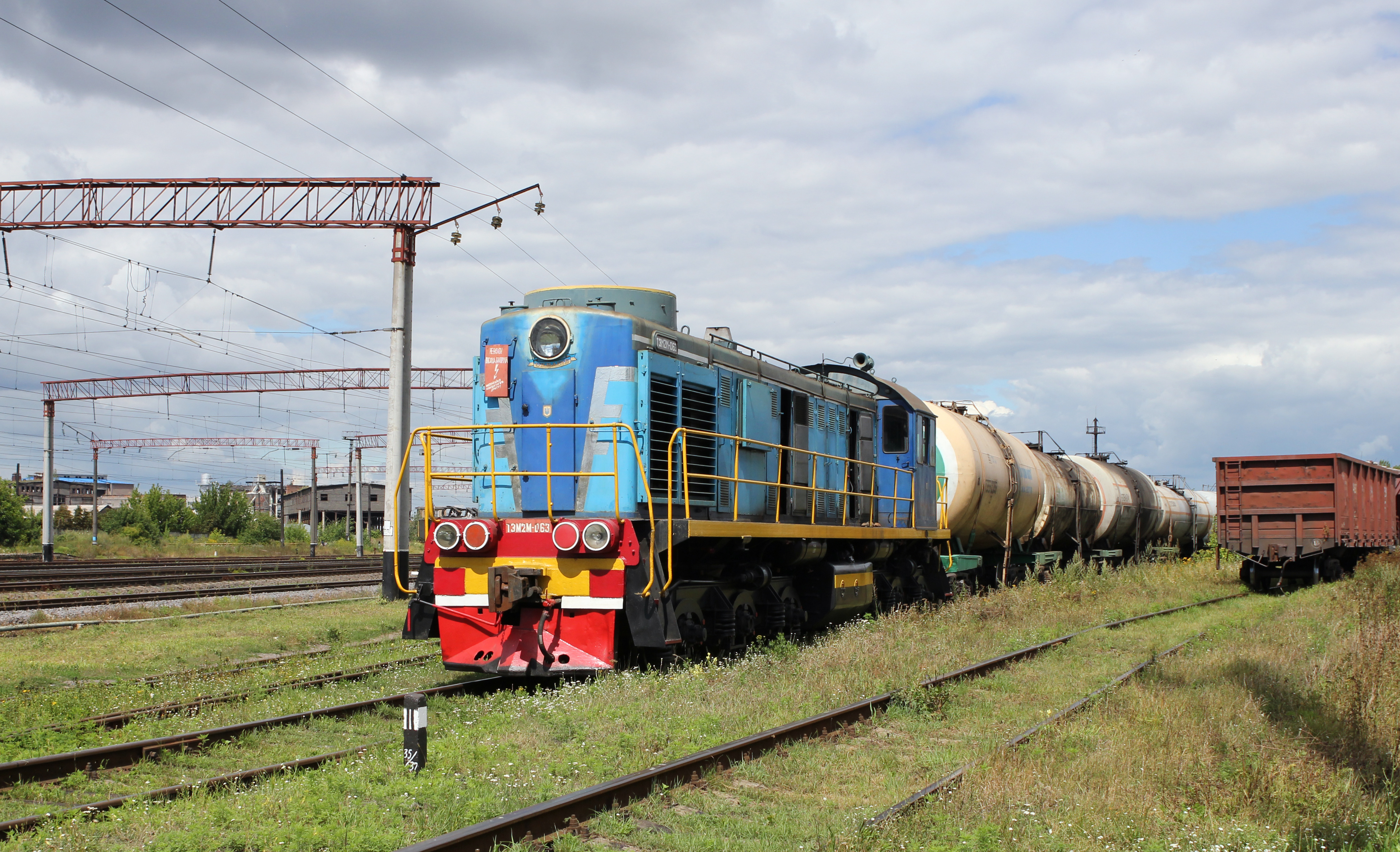 Locomotive TEM2M-063 in Vinnytsia railway station, Ukraine.